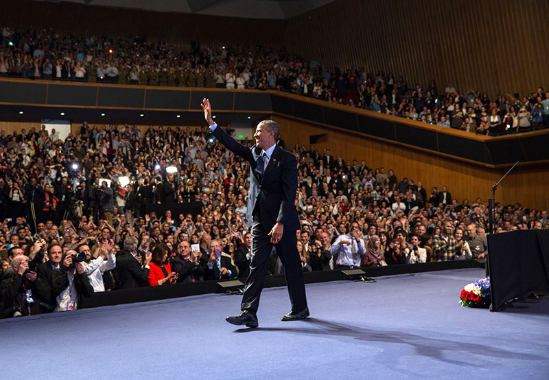 United States President Barack Obama waves to the audience after delivering remarks at the Jerusalem Convention Centre on 21 March 2013.